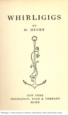 Cover of 1st edition of book Whirligigs by O.Henry